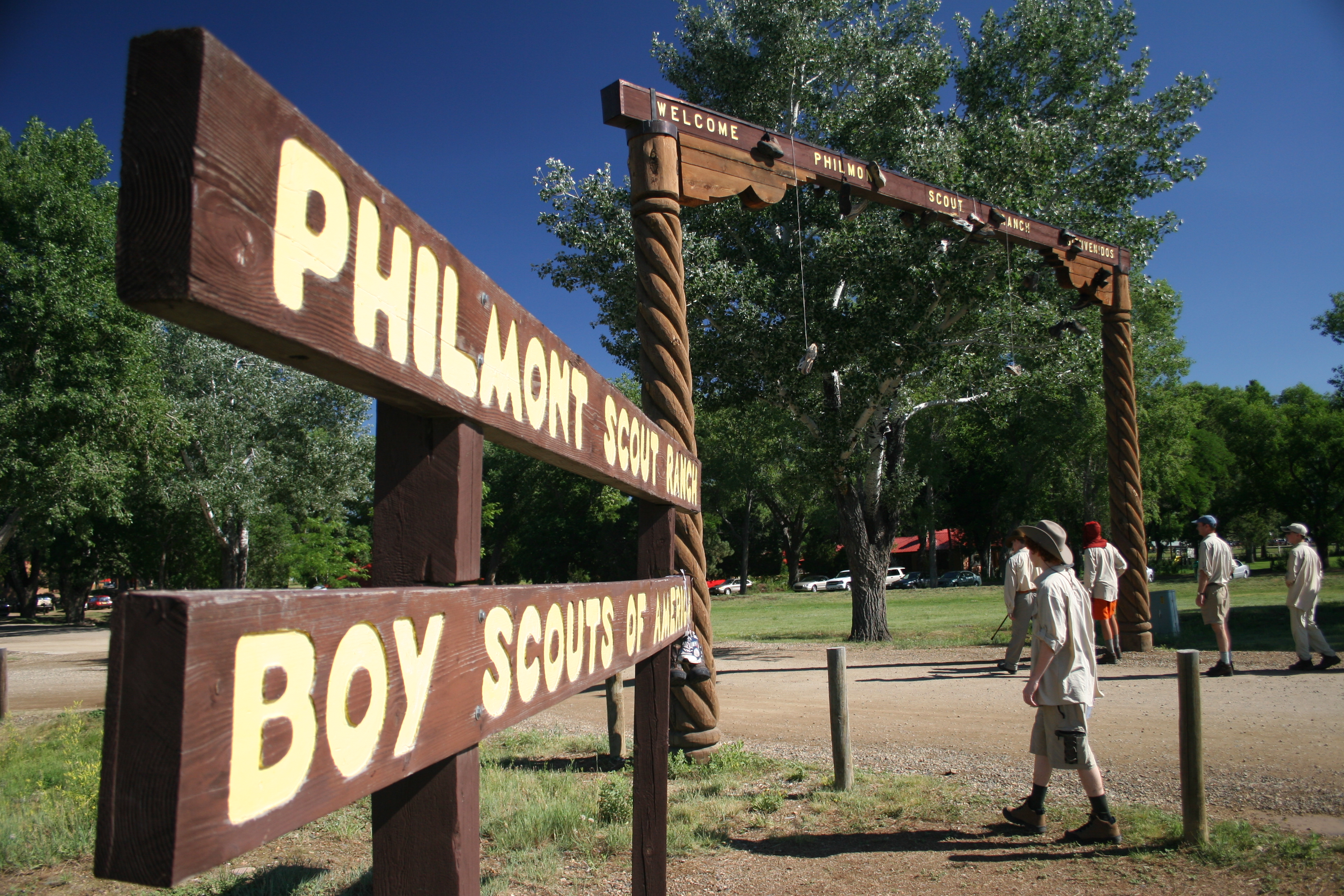 Sign at the Philmont Scout Ranch. During the summer of 2009, the sign was hit by a bus and subsequently removed.